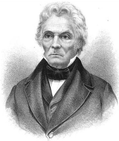 Charles Dayan, New York Congressman